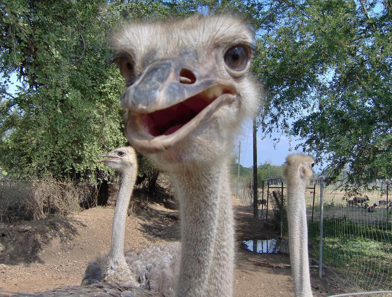 Ostriches in a farm, Thailand